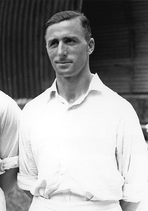 Cricketer J D Robertson. Robertson played for 'The Rest' during the England v The Rest Test Trial.